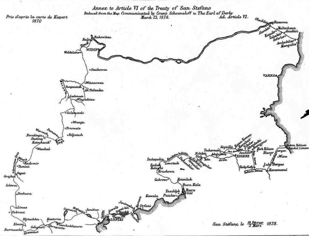 nnex to Article 1 of the Treaty of San Stefano, scanned from the published text of the treaty.